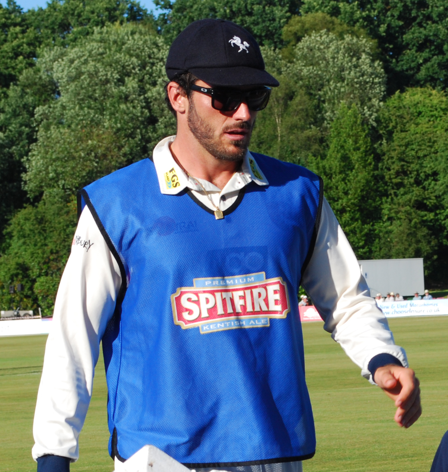 Stewart at Tunbridge Wells in June 2018